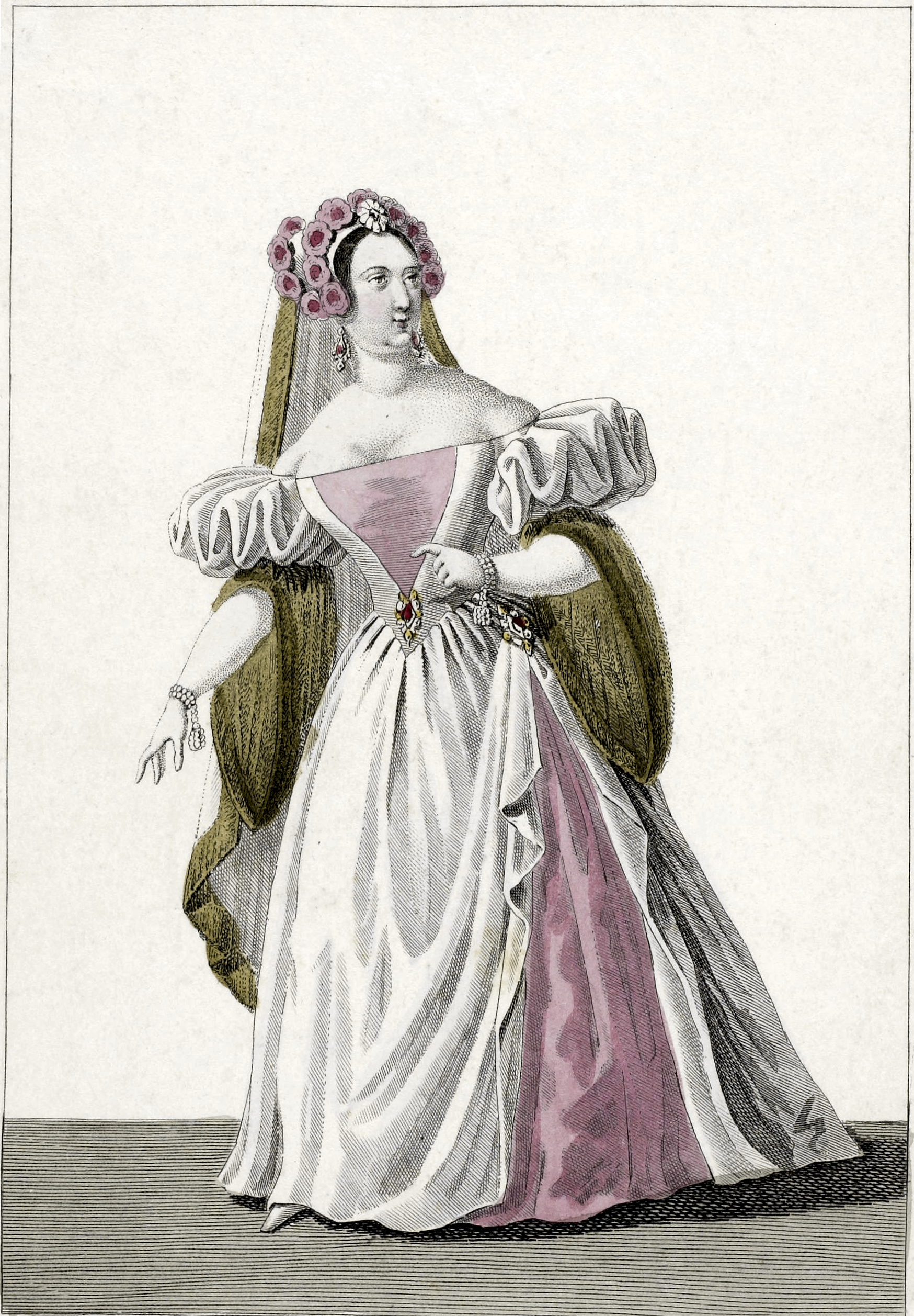 Mademoiselle George (1787–1867) as Théodora in la Vénitienne.